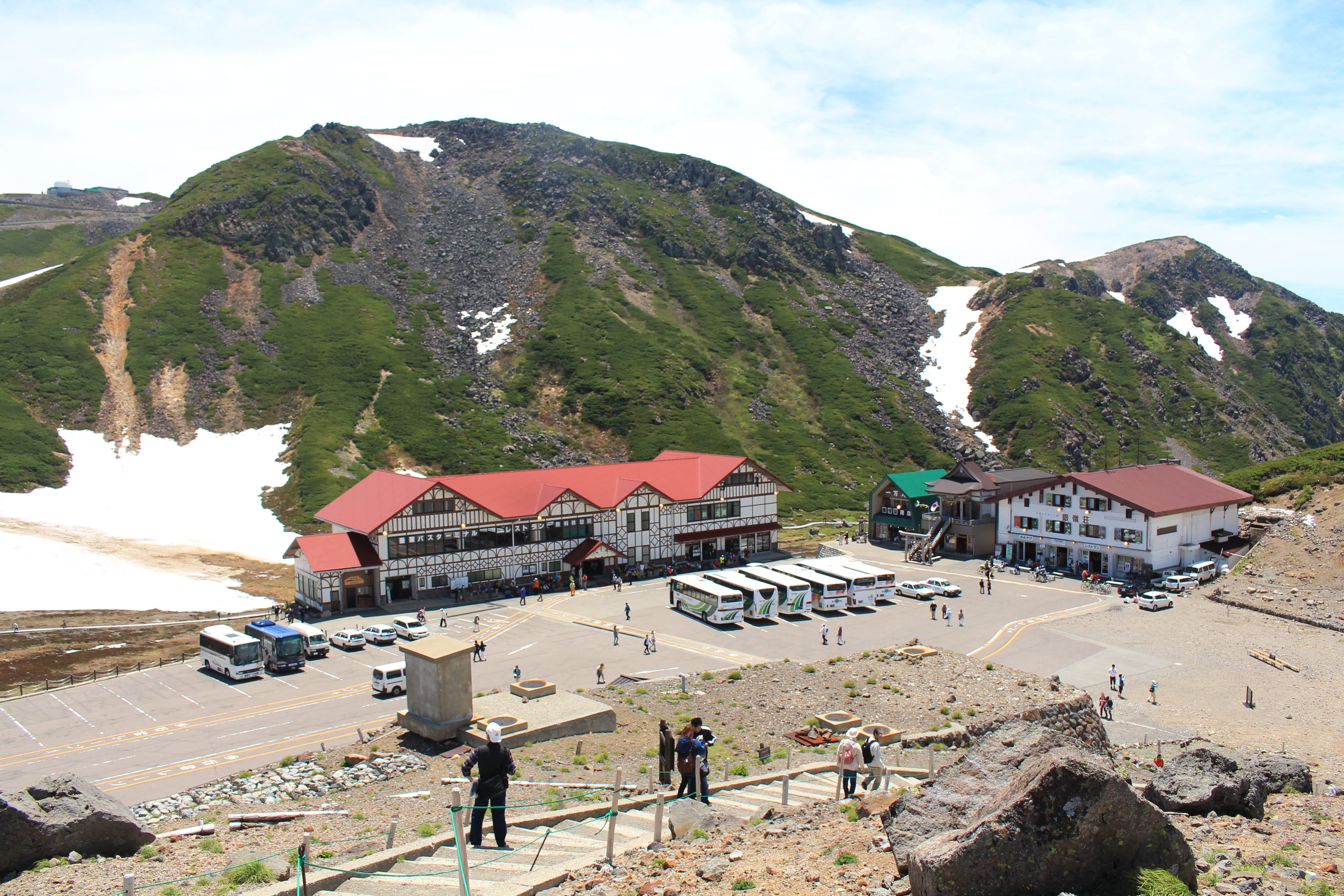 Norikura Bus Terminal on Mount Norikura, Takayama, Gifu prefecture, Japan.